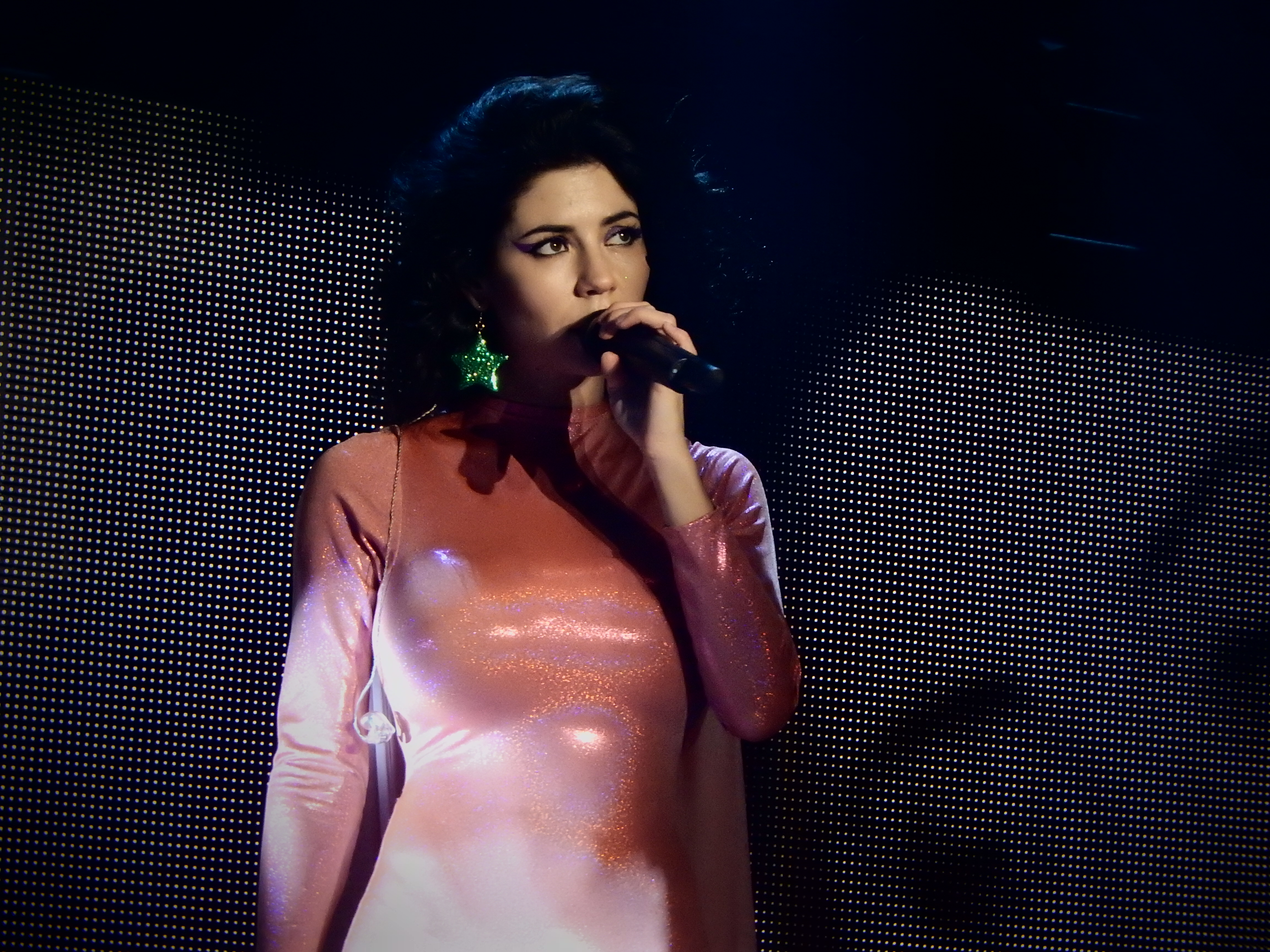 Marina and the Diamonds, Roundhouse, London